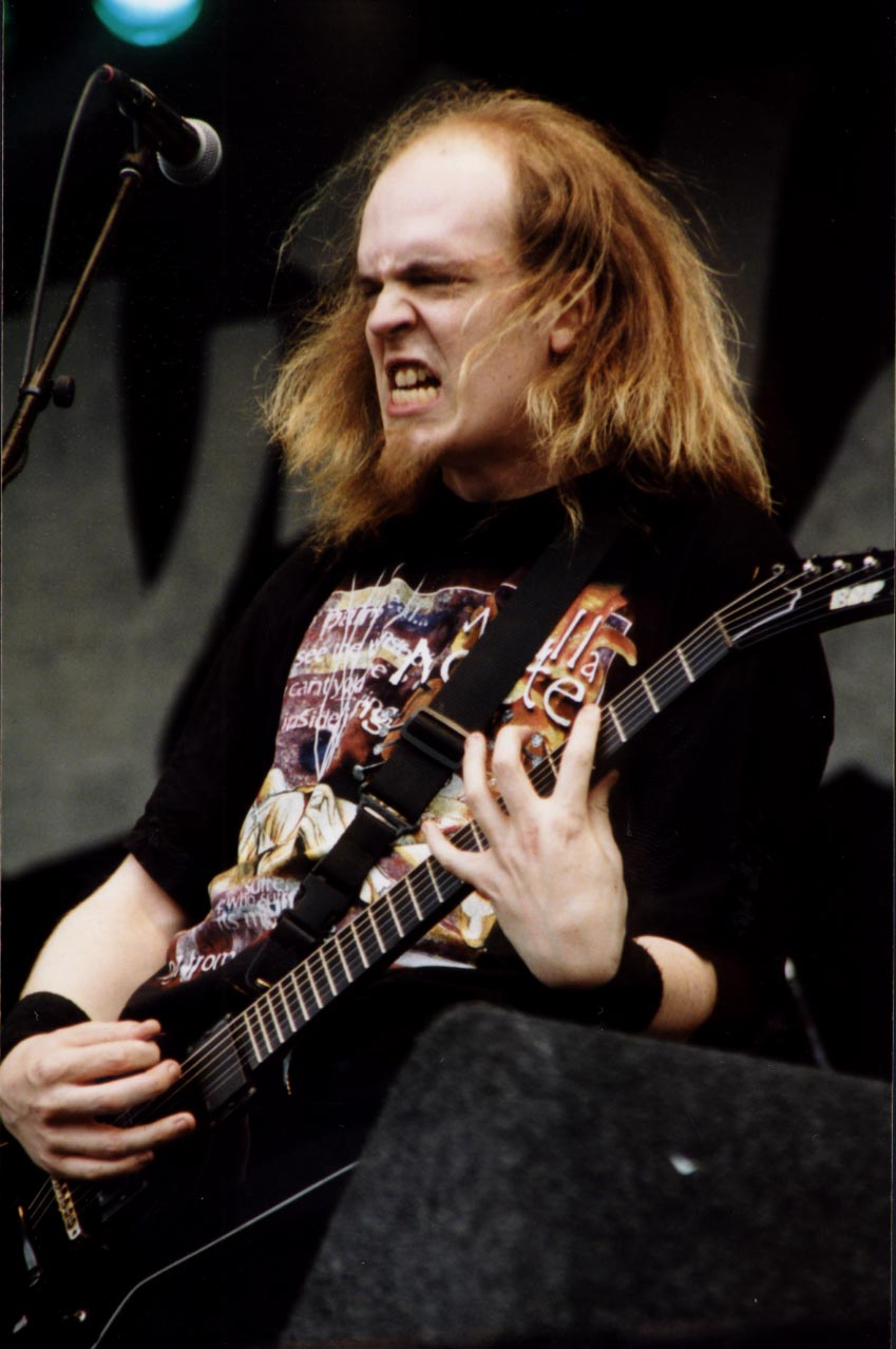 Devin Townsend, performing live.